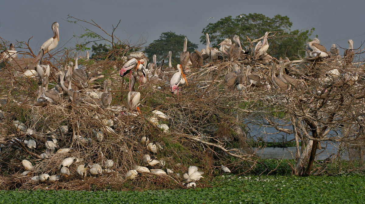 Spot-billed Pelican Pelecanus philippensis, Black-headed Ibis Threskiornis melanocephalus & Painted Stork Mycteria leucocephala at Garapadu, Andhra Pradesh, India.